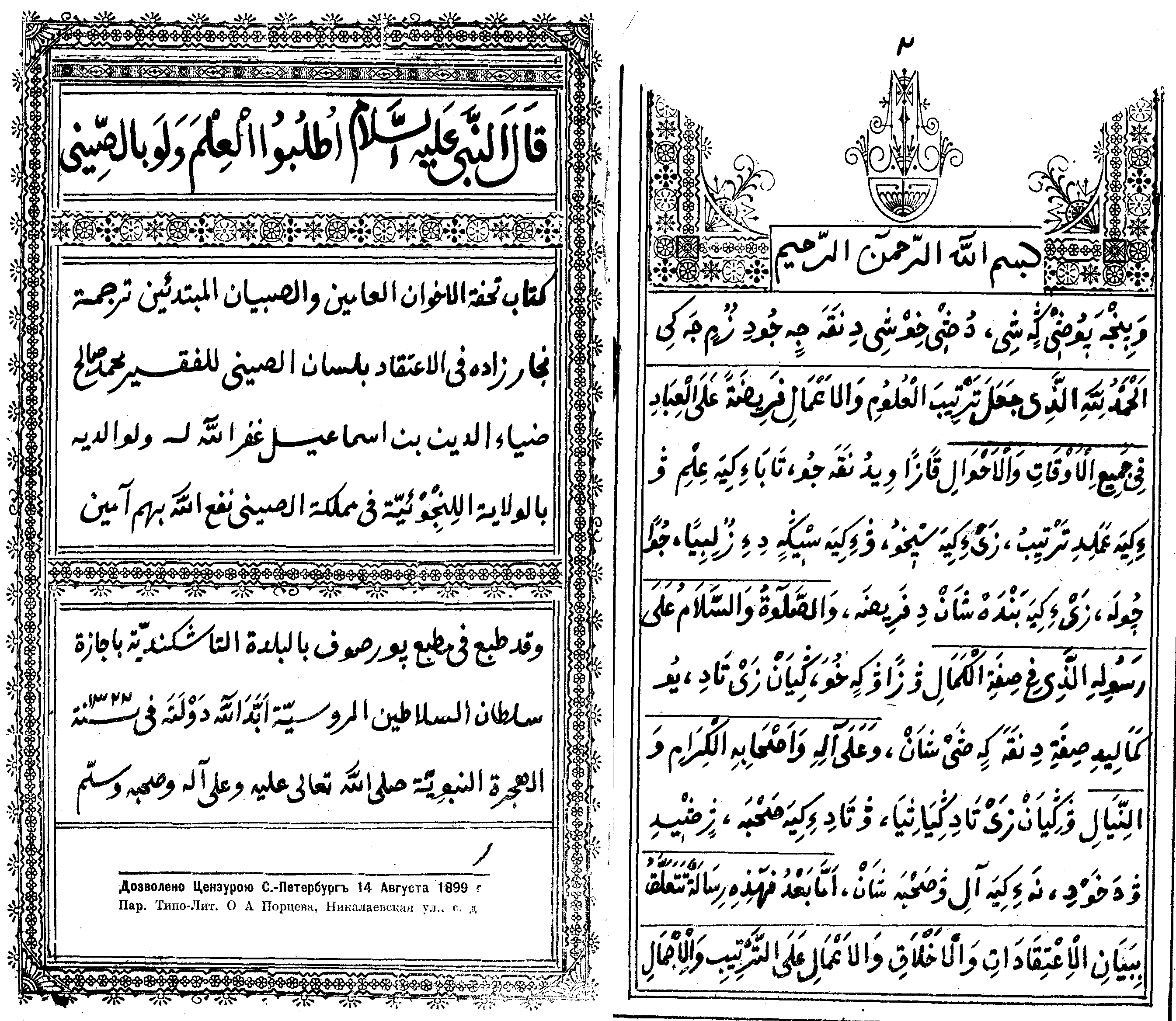 A manual on Kaidānī law printed in Tashkent in 1899. Contains an Arabic text and its Chinese translation written in the Xiao'erjing Arabic system.